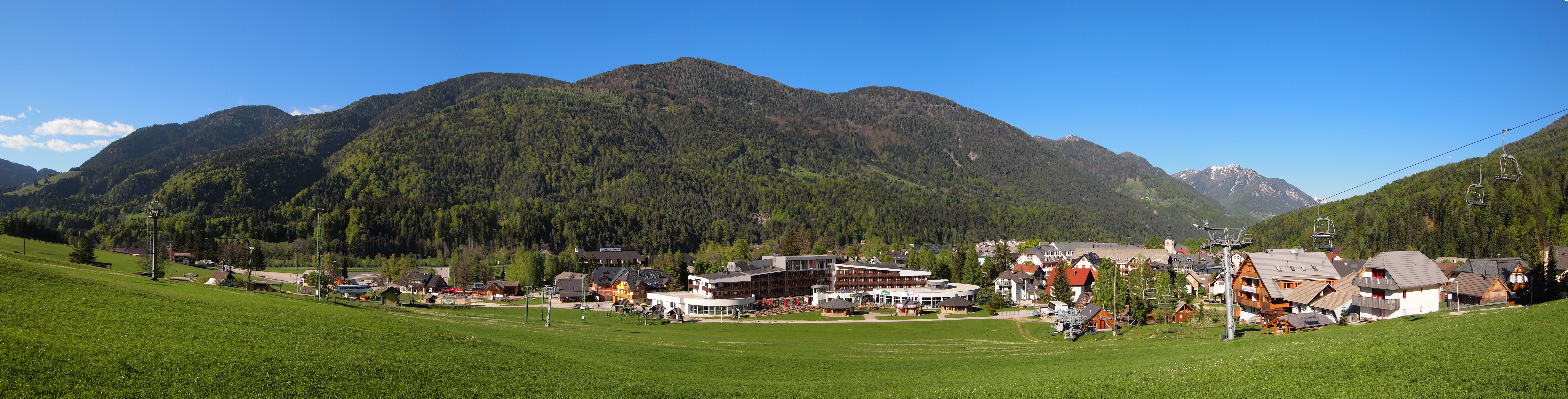 Panoramic view in Kranjska Gora.